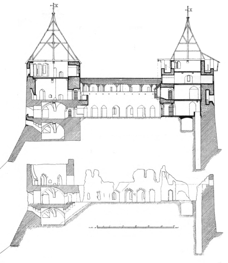 Burges's intent for Castell Coch, 1874, cleaned up